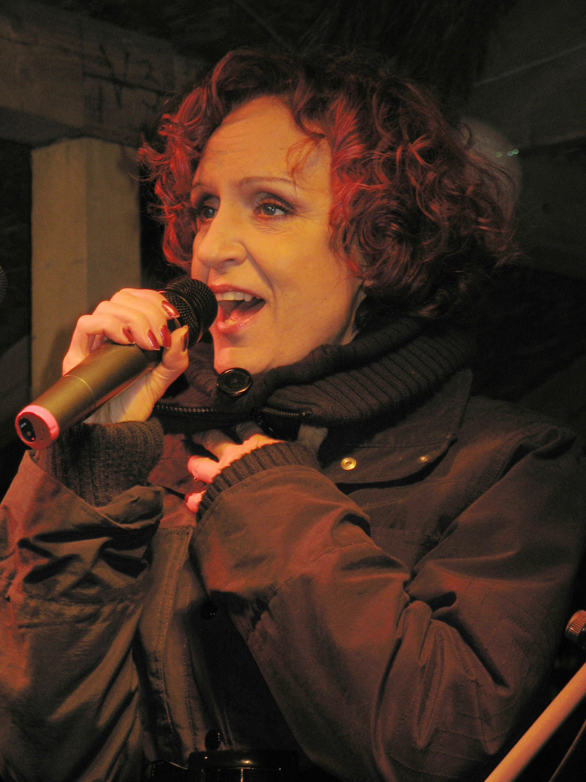 Czech singer Petra Janů